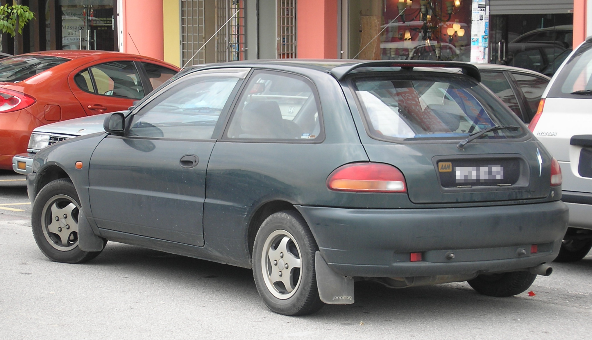 The rear of a first generation Proton Satria, in Serdang, Malaysia.